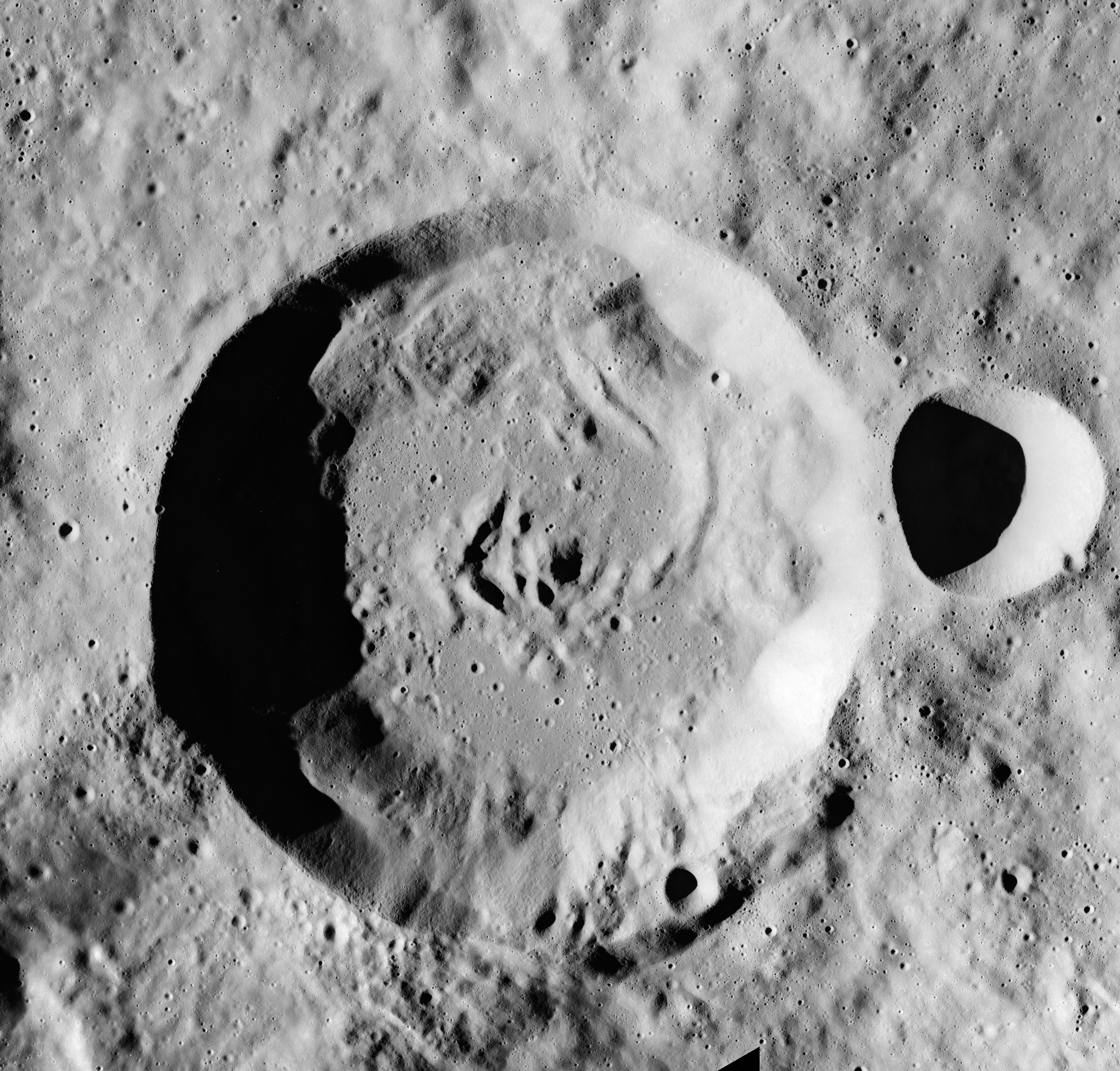 Tiselius crater, on the far side of the moon. From Revolution 3 of the Apollo 16 mission.